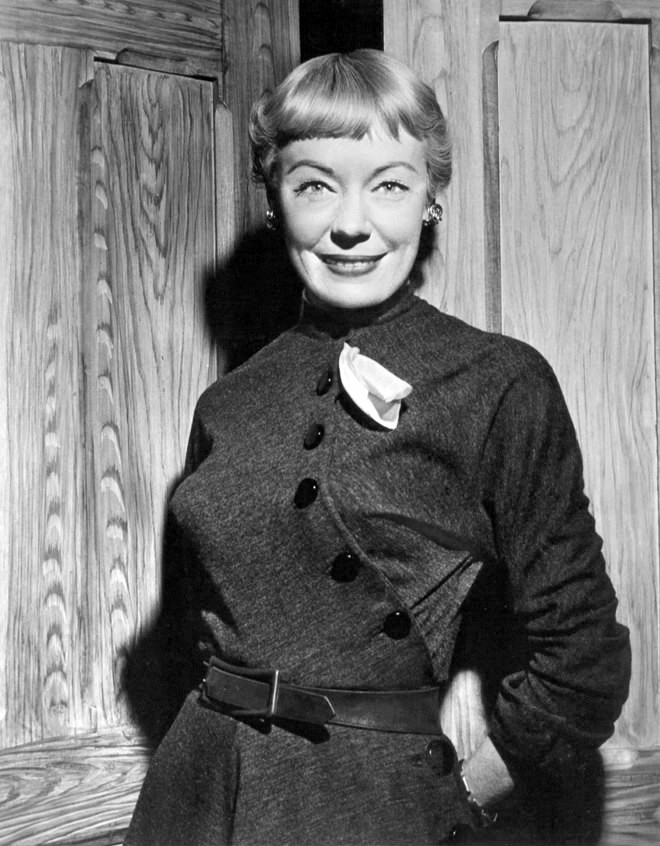 Photo of Haila Stoddard as Pauline Harris from the daytime drama The Secret Storm.